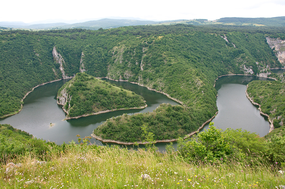 Panoramic scenes of the Pester plateau, karst region in southwestern Serbia. It situated in the area of Raska. The most part of Pešter is located in the municipality of Sjenica. The relief of Pester Plateau is characterized by low, hilly terrain, streams of clean water and vast meadows that are used for grazing sheep and cattle. Pester field is a region of outstanding natural value. A part of Pester is the Uvac River Canyon. In the canyon of the river Uvac nests large colony of eagles, vultures - Gyps fulvus.